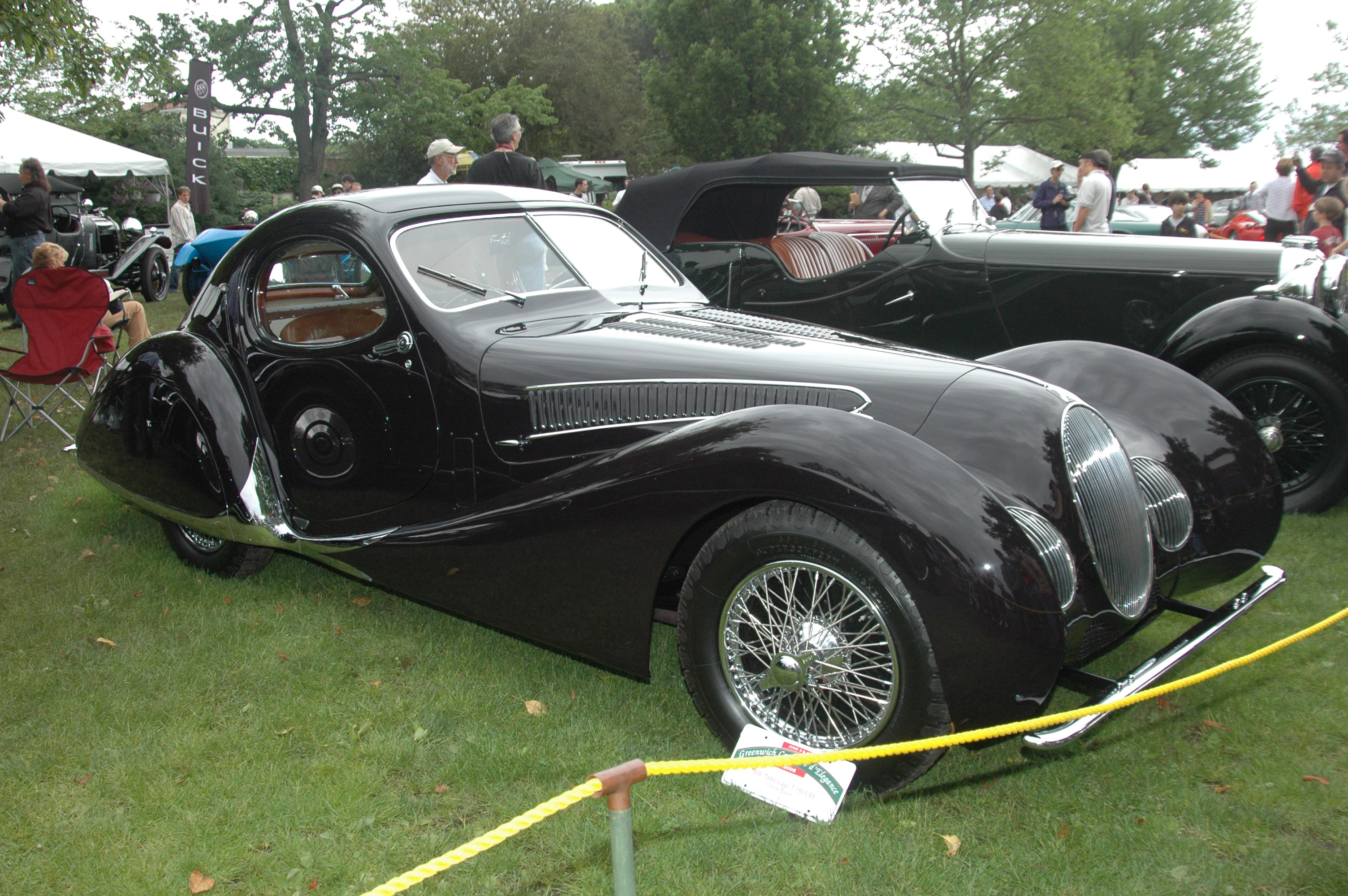 1938 Talbot-Lago T-150 CSS Coupe. Photographed by Jagvar at the Greenwich Concours d'Elegance in Greenwich, CT on June 4, 2006.